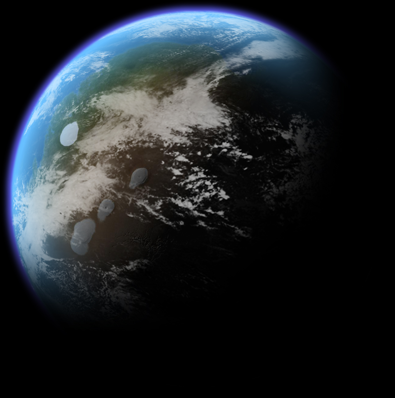 A concept of a terraformed Mars over the tharsis region. (Credit: Daein Ballard)